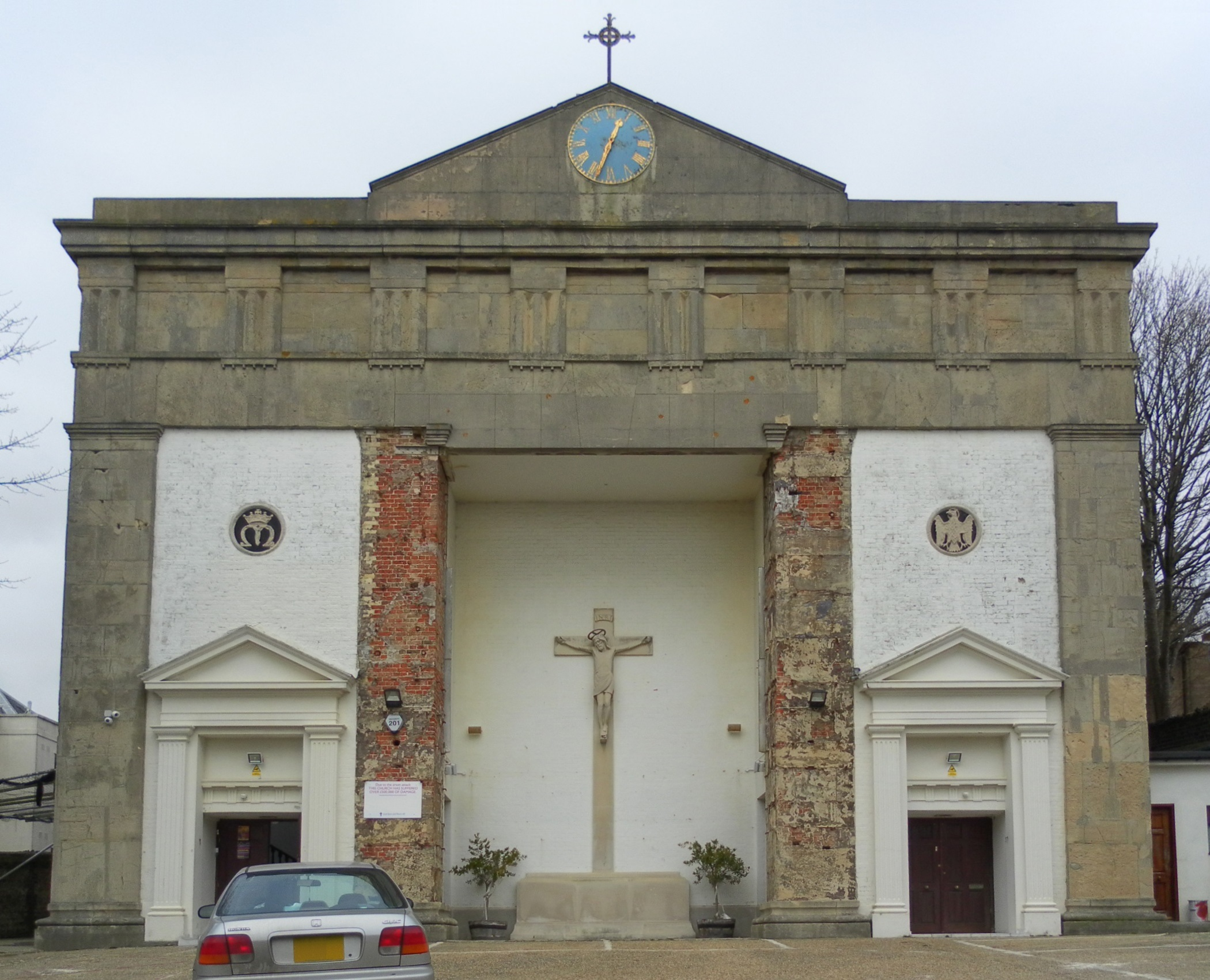 Greek Orthodox Church of the Holy Trinity, Carlton Hill, Brighton, England, seen from the south